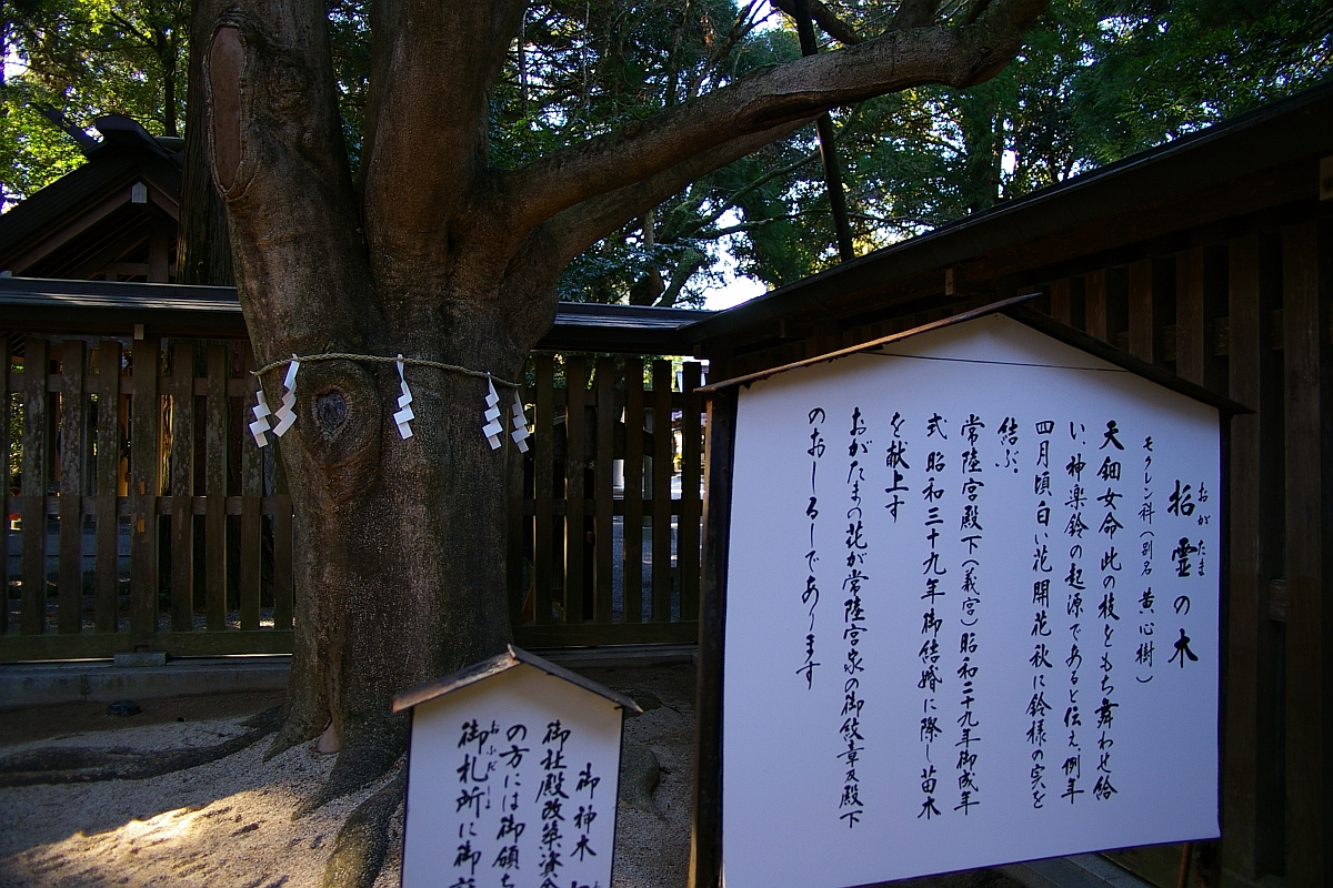 town-tree of Takachiho, Miyazaki, Japan